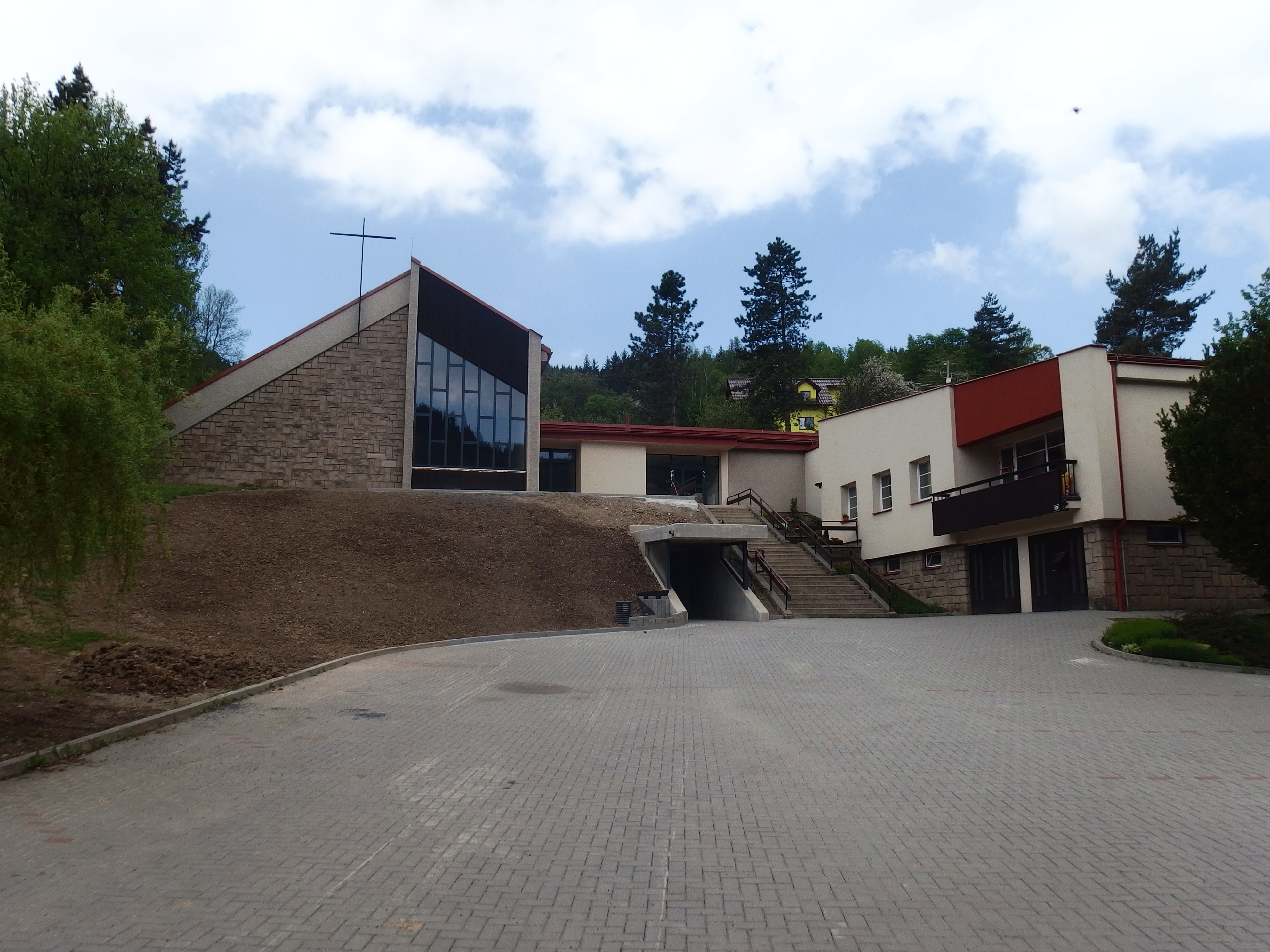 Vsetín, Czech Republic, part Horní Jasenka. Evangelical church.